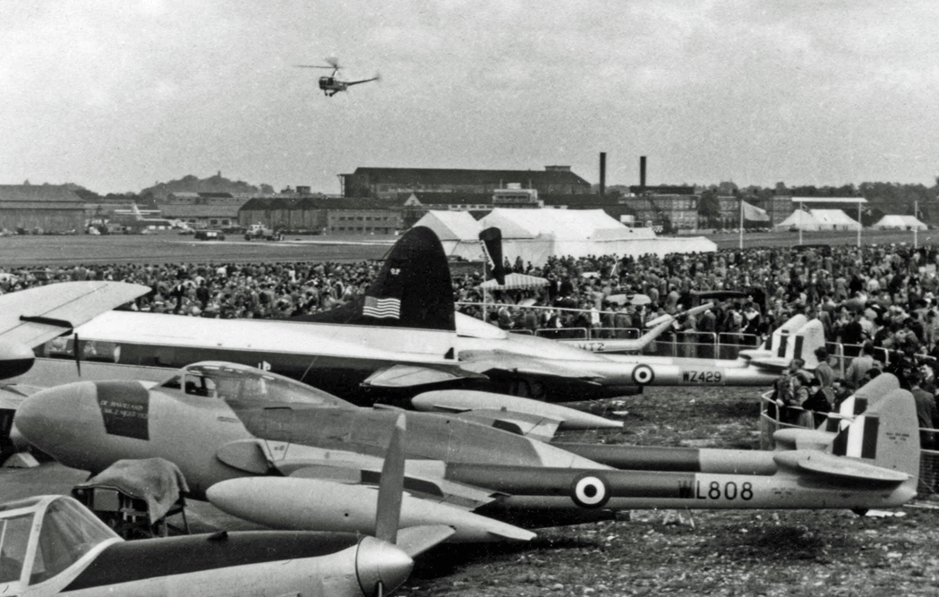 De Havilland DH.112 Venom NF.2 night fighter displayed at the 1952 SBAC show at Farnborough, Hants.